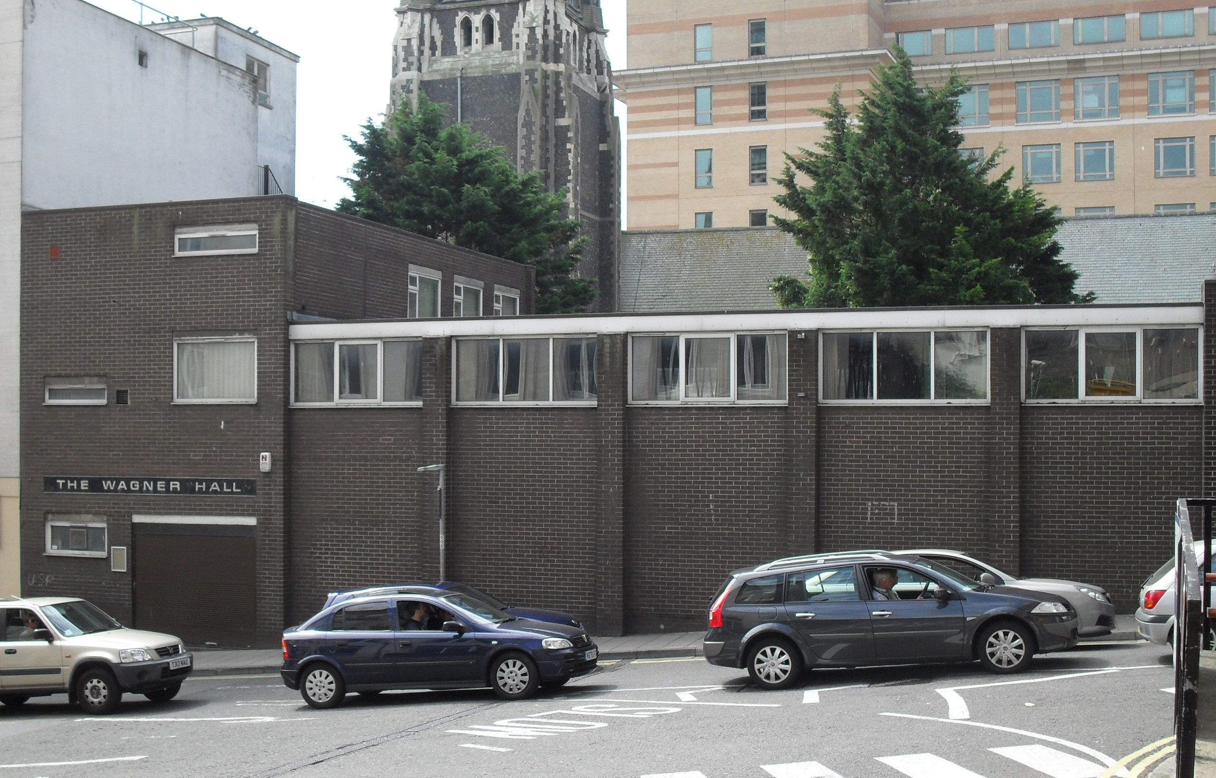 Wagner Hall, Regency Road, Brighton, City of Brighton and Hove, England. Now the church hall of St Paul's Church (whose tower can be seen behind), this 1960s building stands on the site of the Tabernacle Strict Baptist Chapel, which existed from 1834 until 1965.